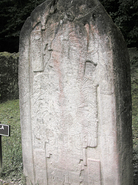 Engraved Stela 16, erected in 711, Tikal, Group N, Guatemala. King Jasaw Chan K'awiil I (Image taken by Clark Anderson/Aquaimages. Category:Tikal